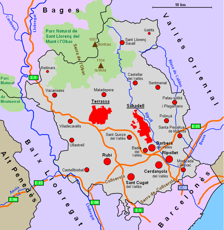 Map of the comarca Vallès Occidental, Catalonia, Spain